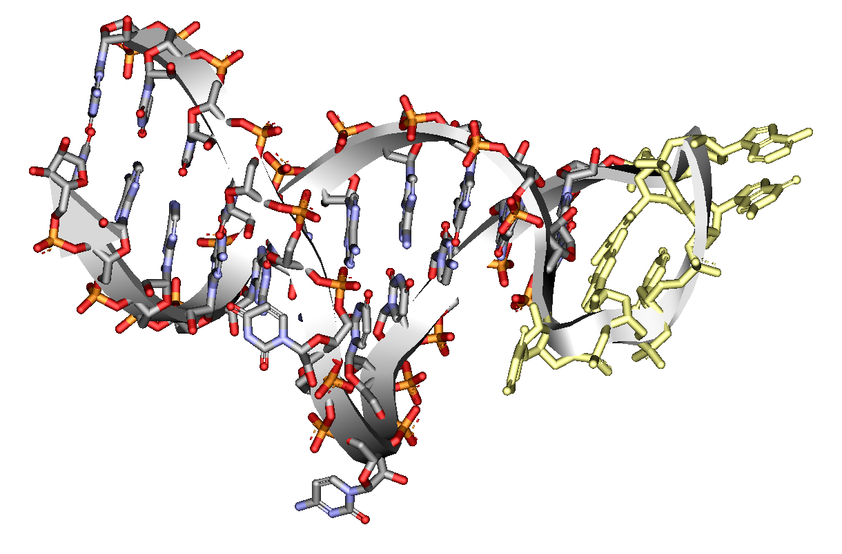 3d ribbon/stick model of part of ferritin mRNA with the iron-responsive element (IRE) shown in yellow, after PDB 2IPY. Ref.: Selezneva AI, Cavigiolio G, Theil EC, Walden WE, Volz K (March 2006). "Crystallization and preliminary X-ray diffraction analysis of iron regulatory protein 1 in complex with ferritin IRE RNA". Acta Crystallogr. Sect. F Struct. Biol. Cryst. Commun. 62 (Pt 3): 249–52. PMID 16511314. PMC: 2197192.